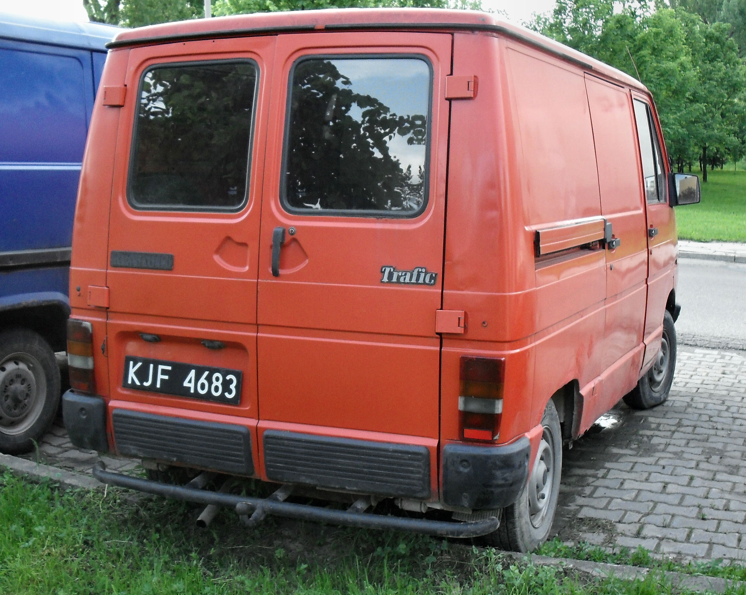 Renault Trafic seen in Jasło, Poland.